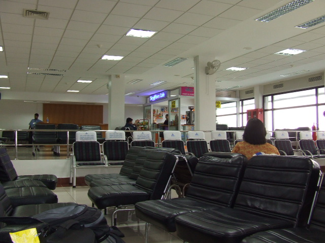 Domestic Terminal of Trivandrum International Airport